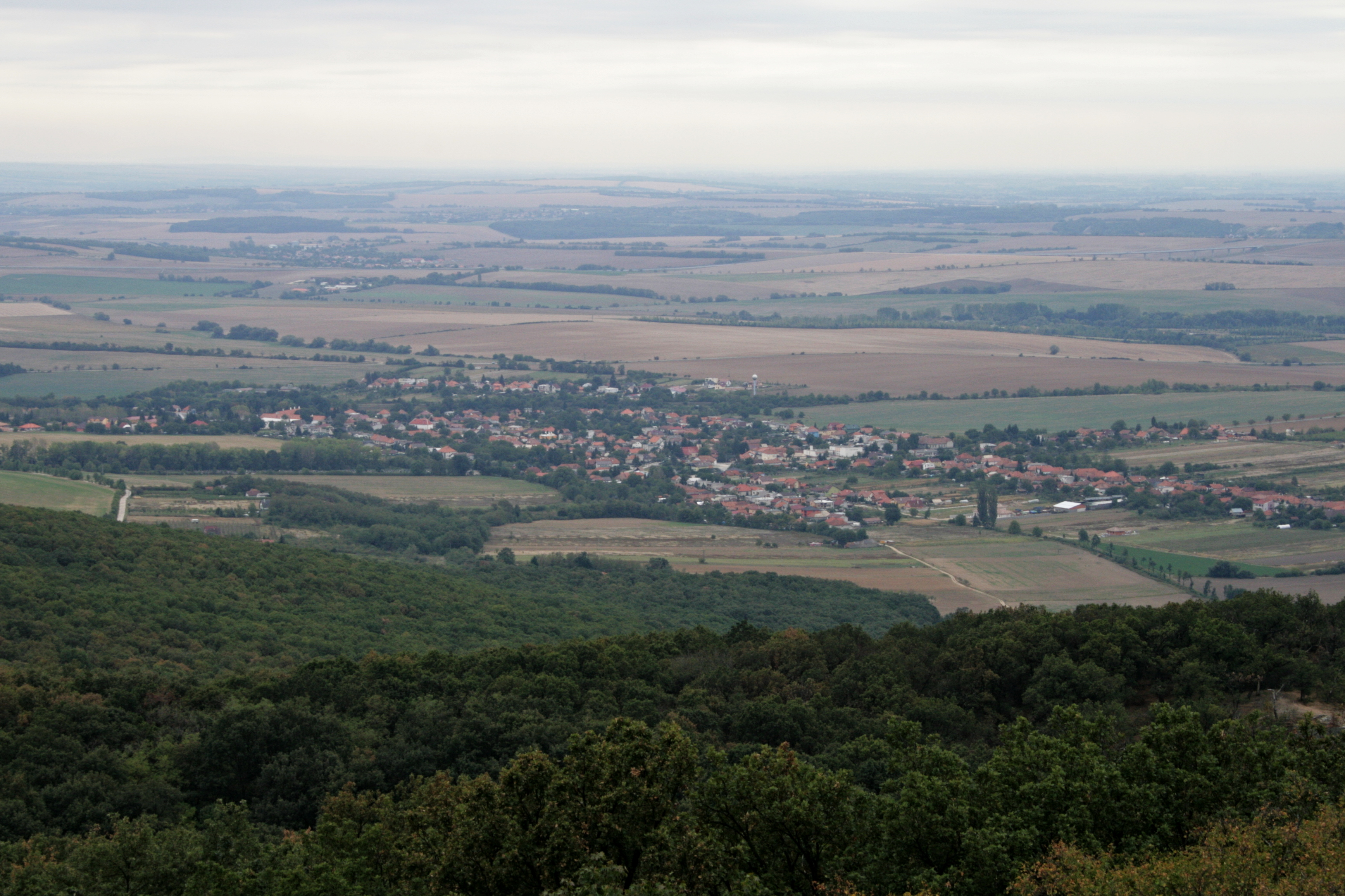 View of Jelenec village (Nitra district, Slovakia)